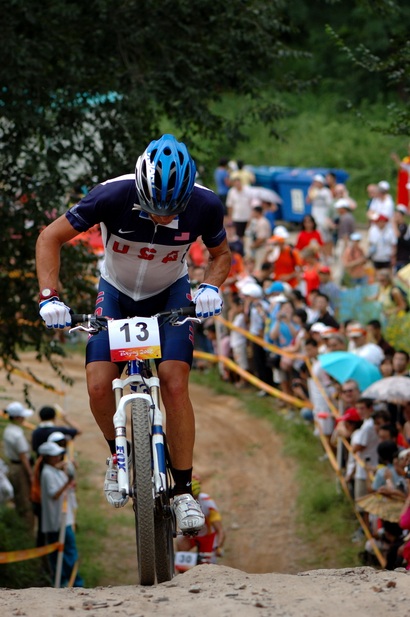 Cycling at the 2008 Summer Olympics – Men's cross-country - Adam Craig (United States)